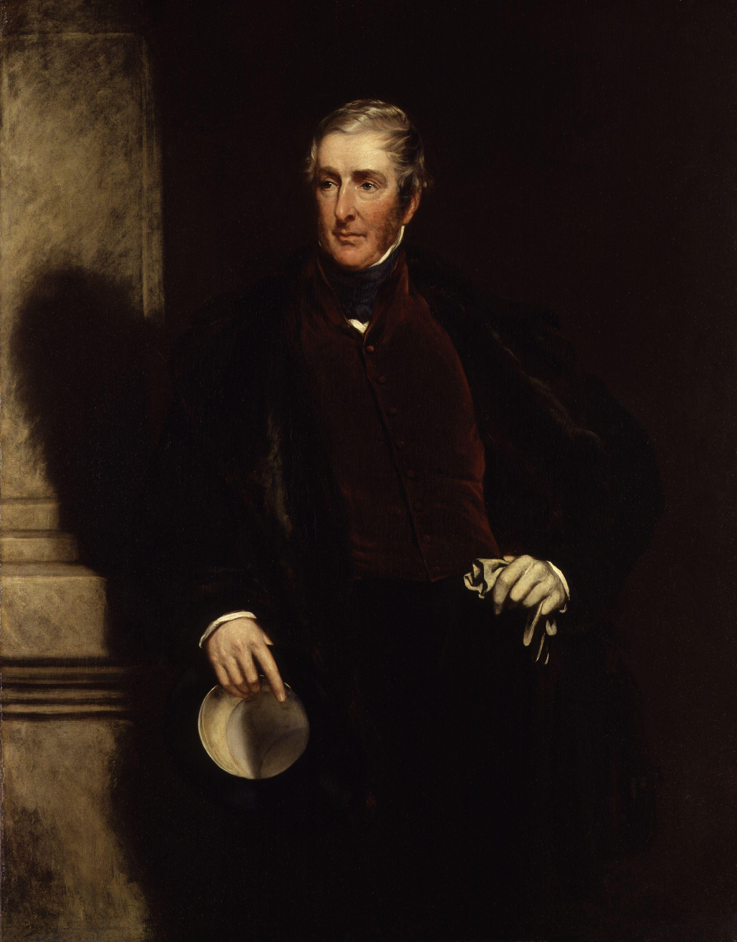 Frederick James Lamb, 3rd Viscount Melbourne, by John Partridge (died 1872). All images in this batch have been confirmed as author died before 1939 according to the official death date listed by the NPG.